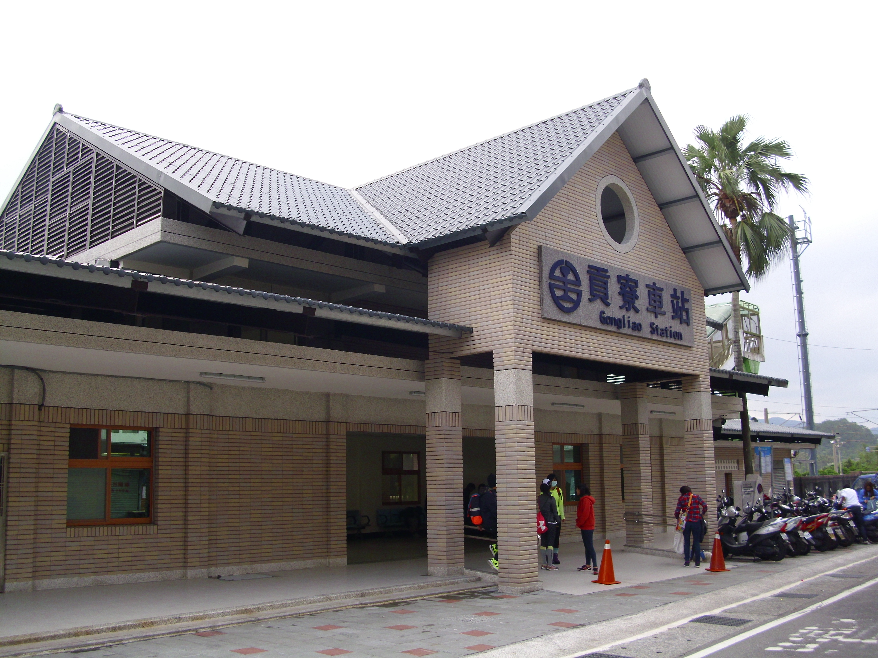 Gongliao Station, Taiwan Railways Administration